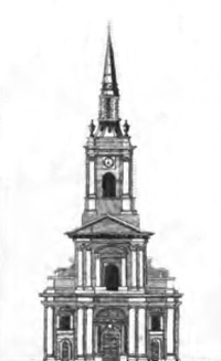 A drawing of St. Werburgh's church in Dublin in 1808.